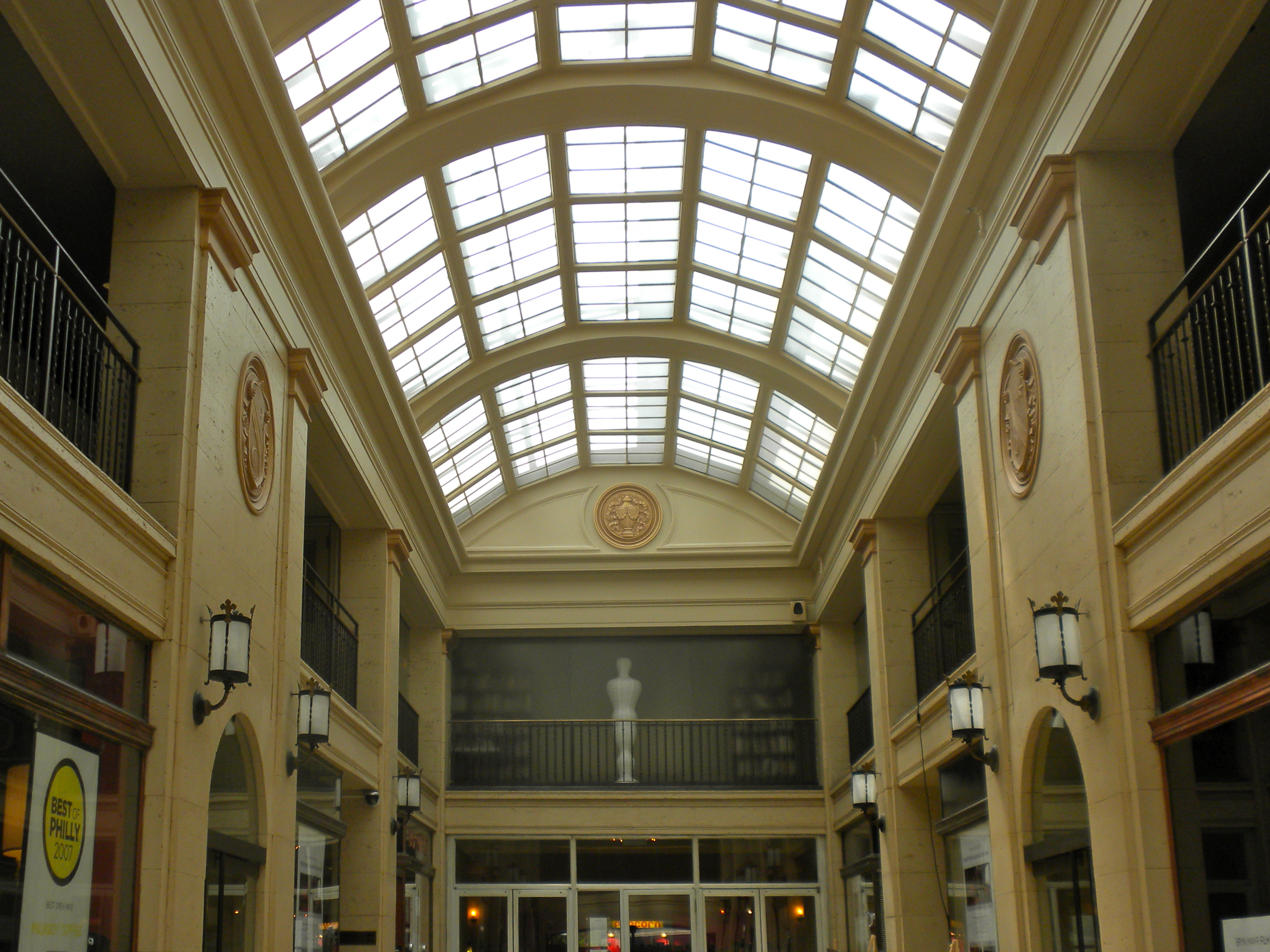 Seville Theatre (interior) on the NRHP since December 28, 2005. At 822–826 West Lancaster Avenue in the CDP Bryn Mawr (near the College) in Lower Merion Township, Montgomery County, Pennsylvania. Now home to the Bryn Mawr Film Institute.